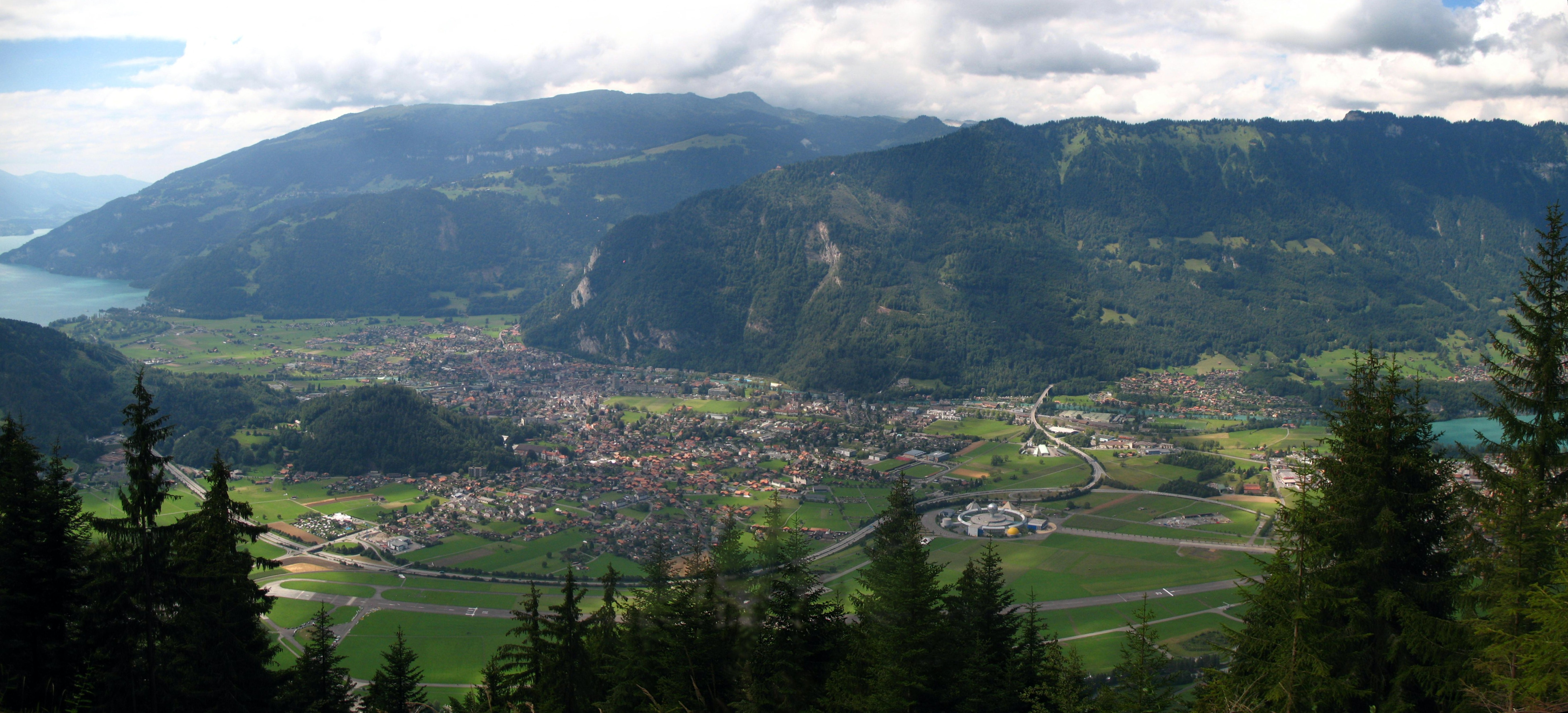 Interlaken, Matten, and Goldswil viewed from the Schynige Platte Railway, Switzerland